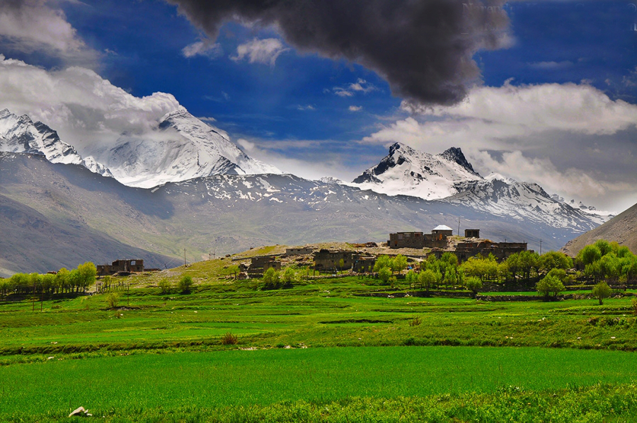 Nun massif seen from Panikhar village